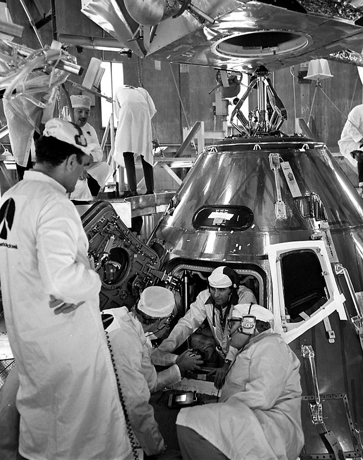 Jack Schmitt (in the spacecraft) talks with Guenter Wendt prior to a test of the Command Module capture mechanism